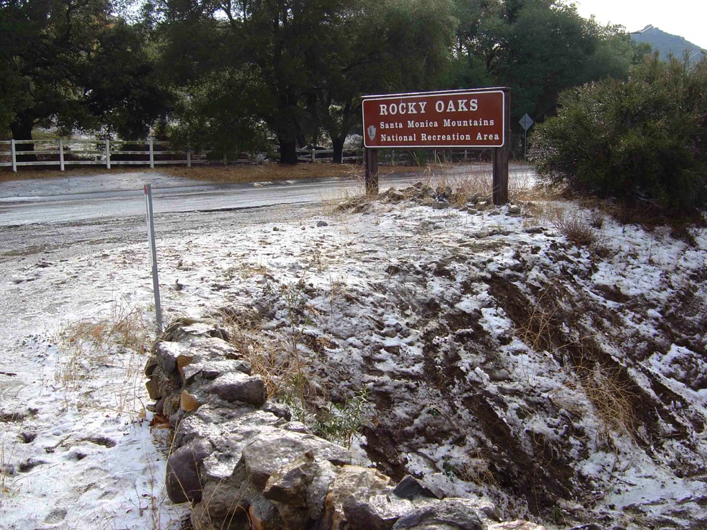 Snow at Rocky Oaks Santa Monica Mountains National Recreation Area